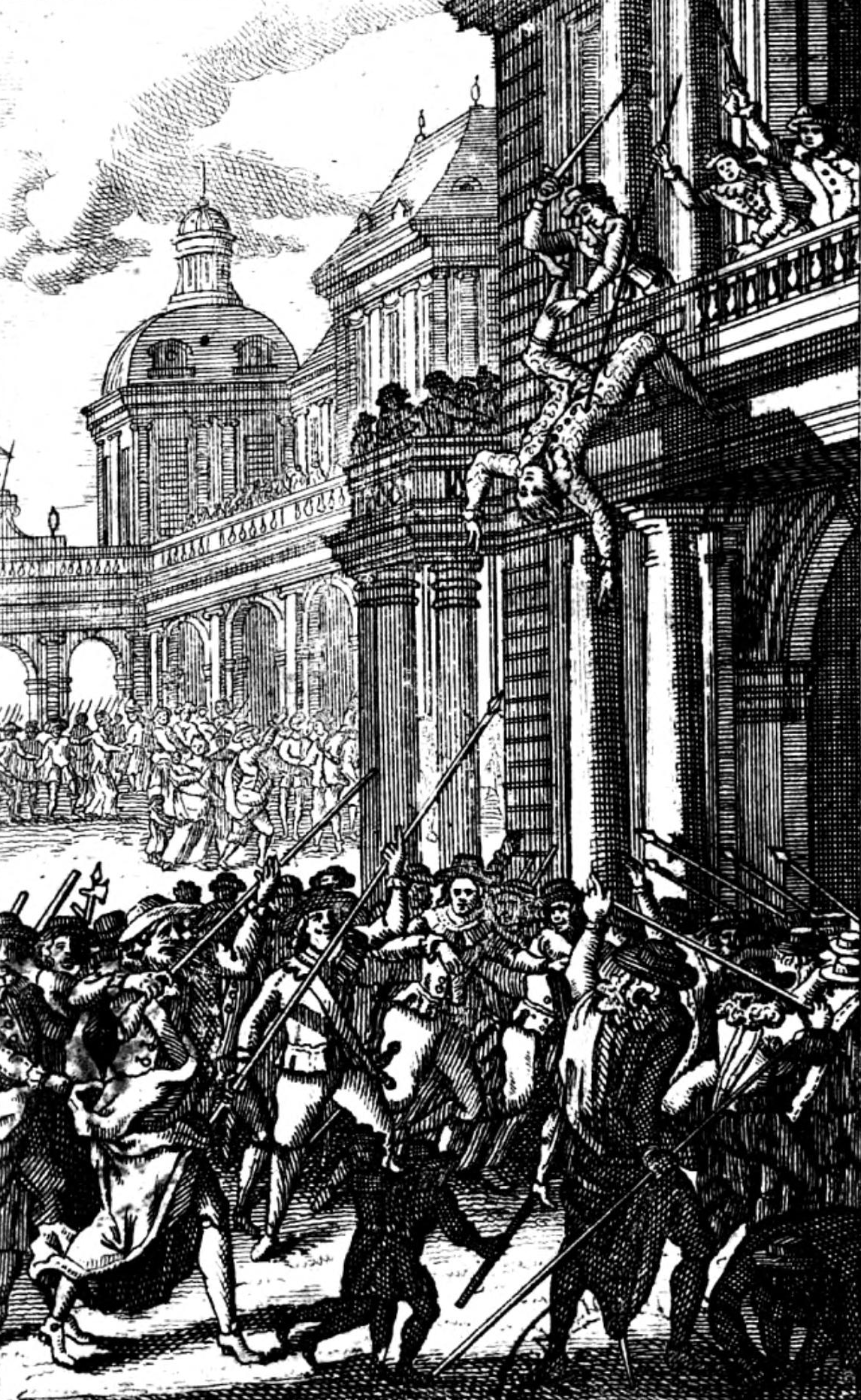 Frontispiece of the 1729 book Histoire des Revolutions de Portugal, by René Aubert de Vertot. The engraving depicts a scene from the Restoration of Independence in 1640 -- the Forty Conspirators defenestrate Miguel de Vasconcelos, Philip IV of Spain's Secretary of State, from one of the windows of the Ribeira Palace.